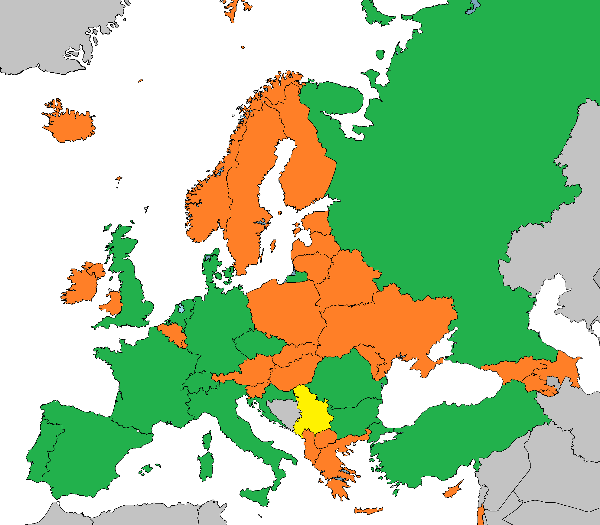 UEFA Euro 1996 qualifying map